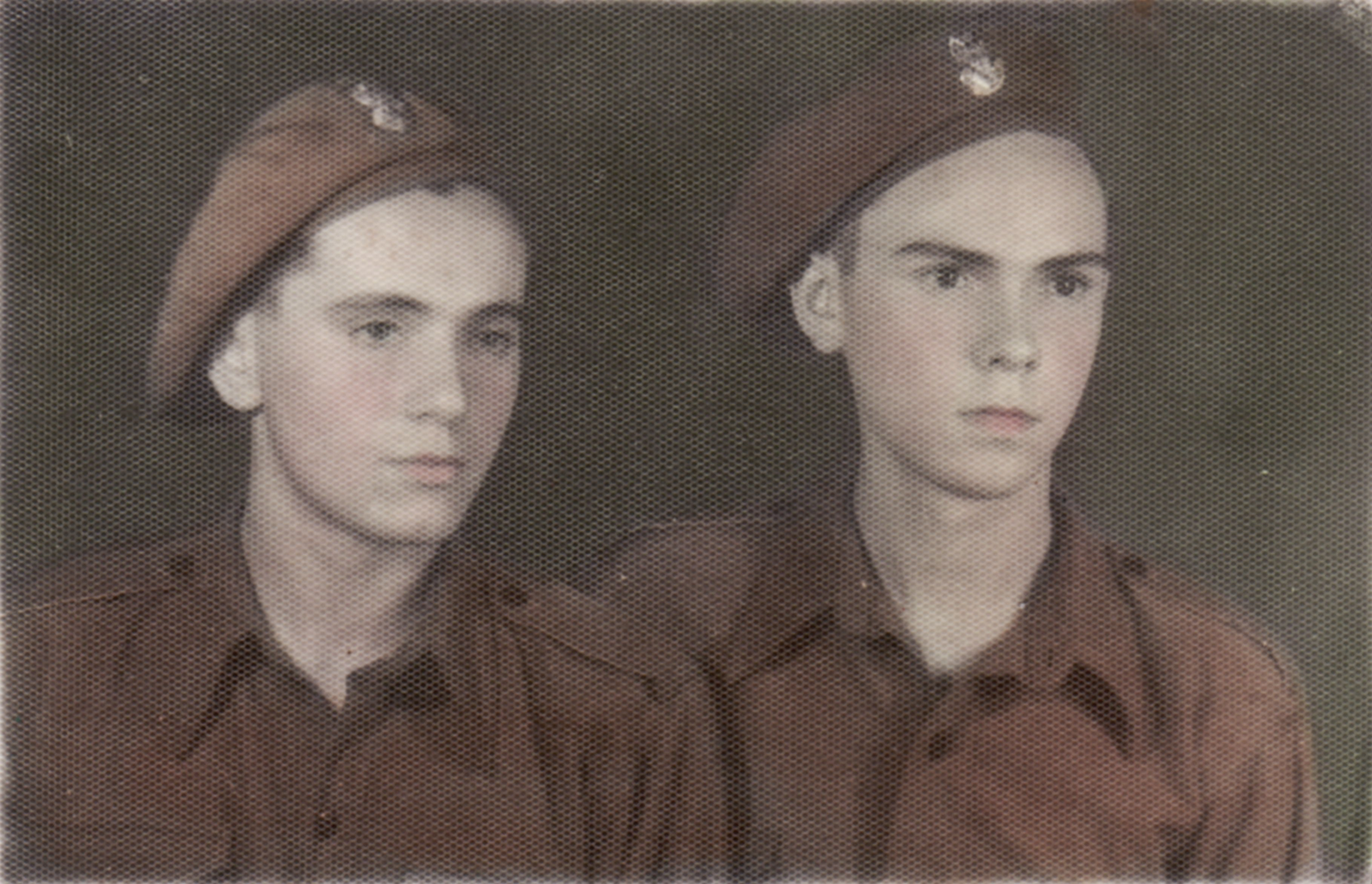 Polish II Corps: Junacy - students of Polish high school in Casarano, Italy.